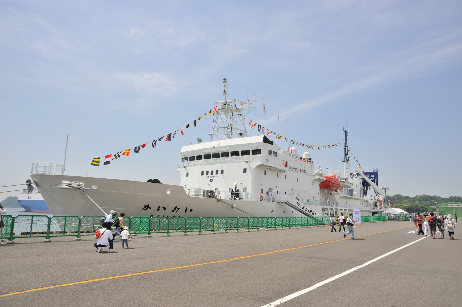 Japan Agency for Marine-Earth Science and Technology (JAMSTEC) Deep Sea Research vessel Kairei